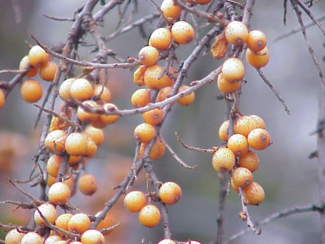 Species: Hippophae rhamnoides Family: Elaeagnaceae Image No. 2